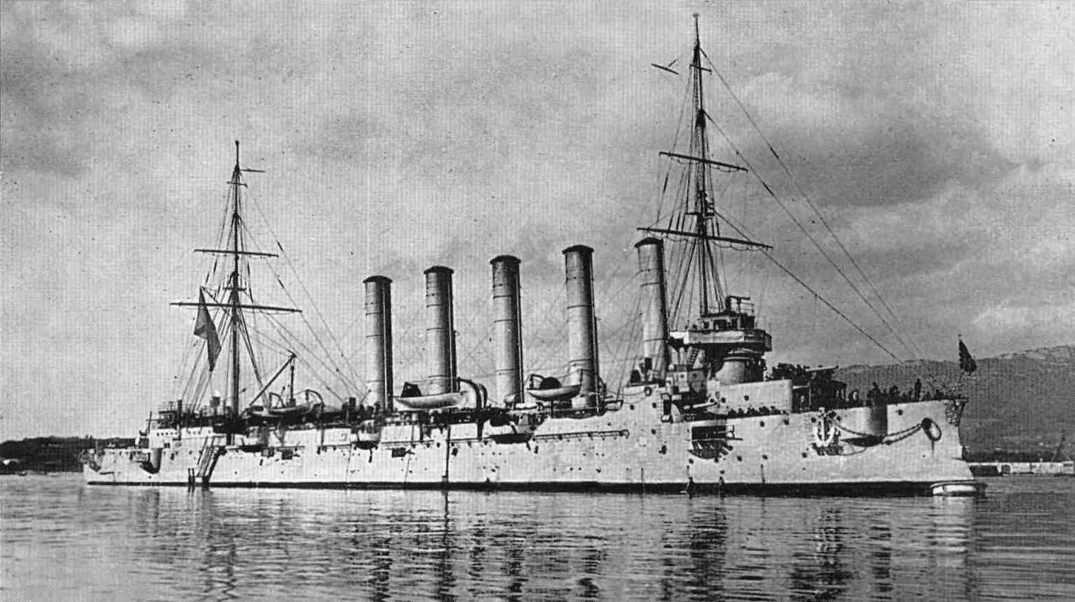 Russian Protected cruiser Askold during World War 1 in the Mediterranean Sea, Toulon.